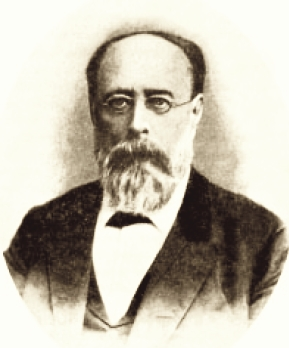 Portrait of Vasily Zinger (1836-1907), Russian mathematician and botanist